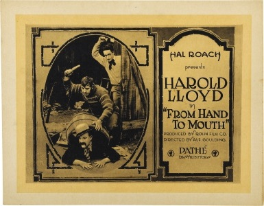 This is a film poster for the 1919 film From Hand to Mouth with Harold Lloyd. Since the film was first released in 1919 and this is a film poster from it, the poster is in the public domain. The film was re-released in 1923; the posters and lobby cards were marked to distinguish the re-release. This is a 1923 copy of this poster. It's marked re-issue and the card has been hand colorized. There are no marks on the re-issue other than "Country of Origin USA" at lower left, so it's also in the public domain.